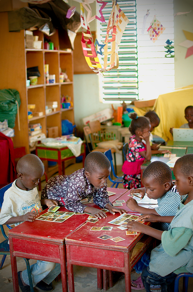 I loved watching these boys and their seriousness in playing memory for the first time ... they were discussing what animal was on the picture :) This is an image with the theme "Play" from: Mali